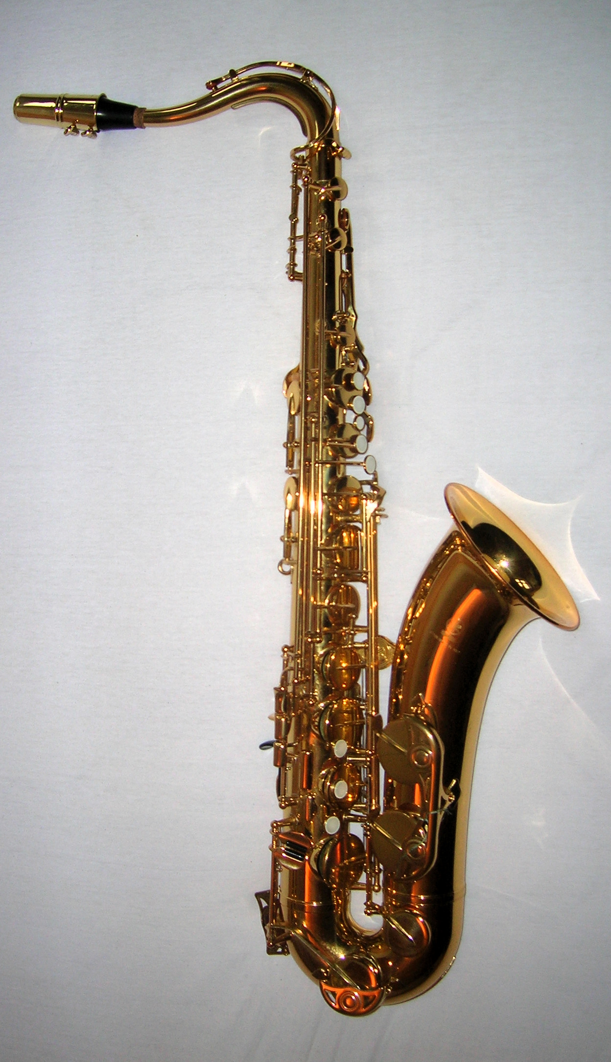 En tenorsaksofon (en: The tenor saxophone) (Le saxophone ténor)